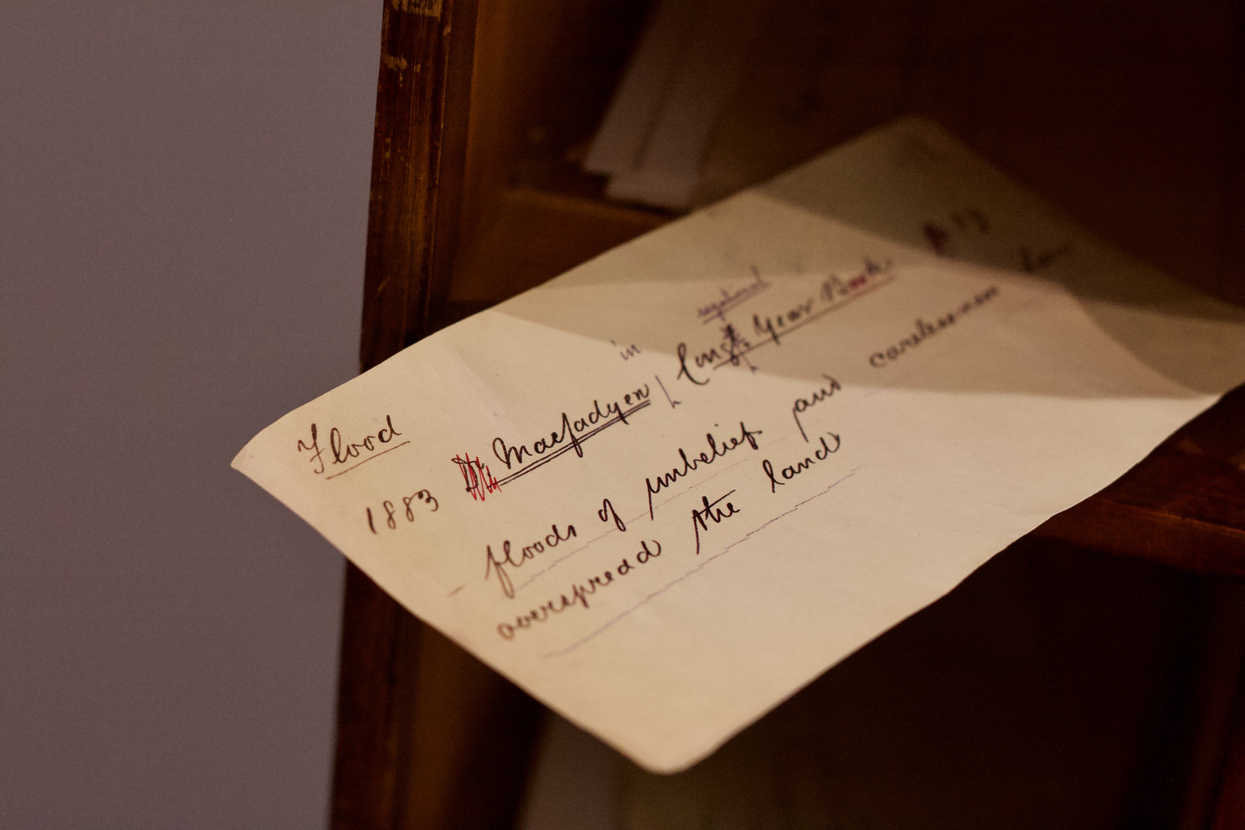 A quotation slip for the Oxford English Dictionary, showing an extended use of the word 'flood' in the Museum of the Oxford University Press, Great Clarendon Street, Oxford.